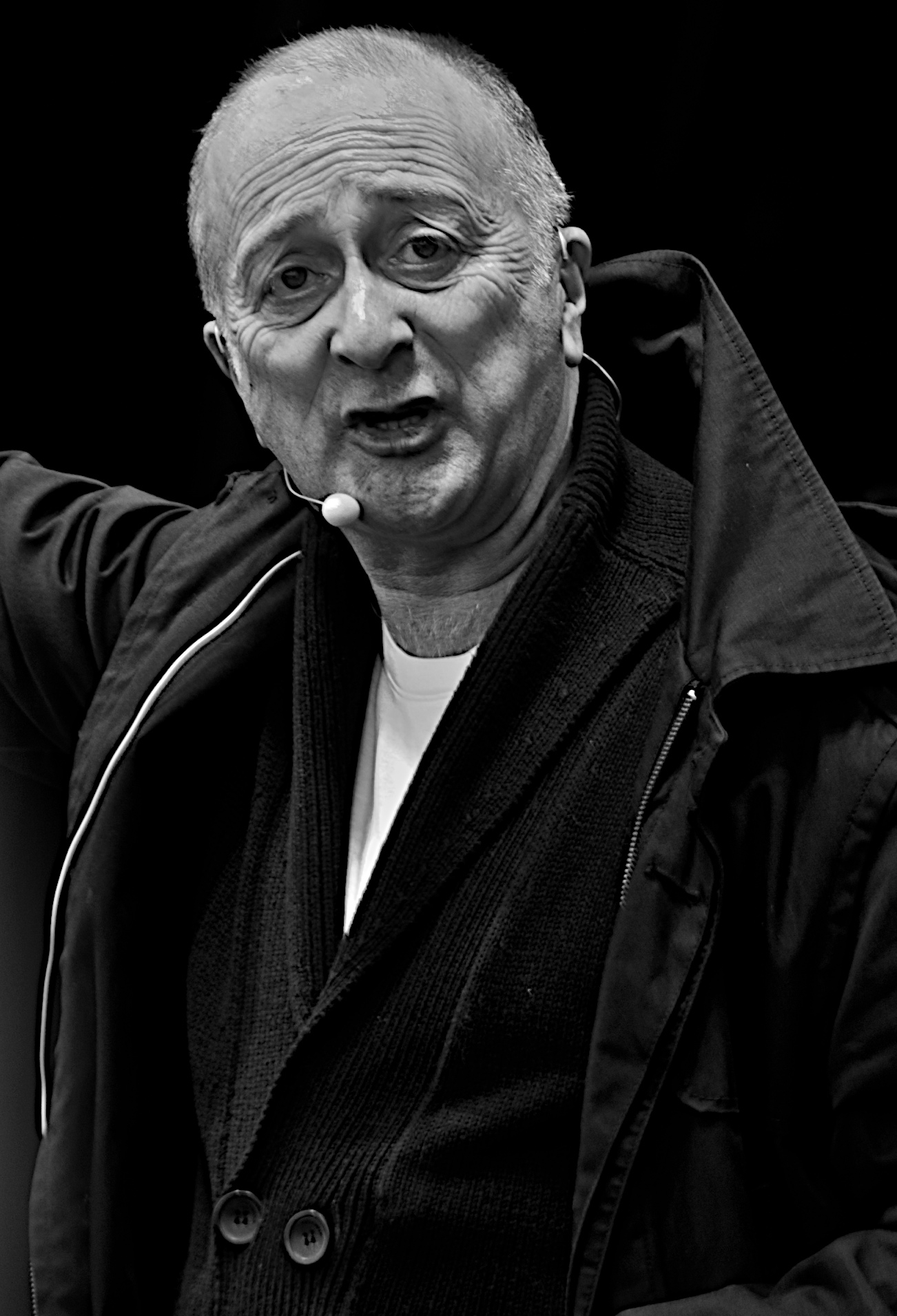 Tony Robinson speaking at Hyde Park.